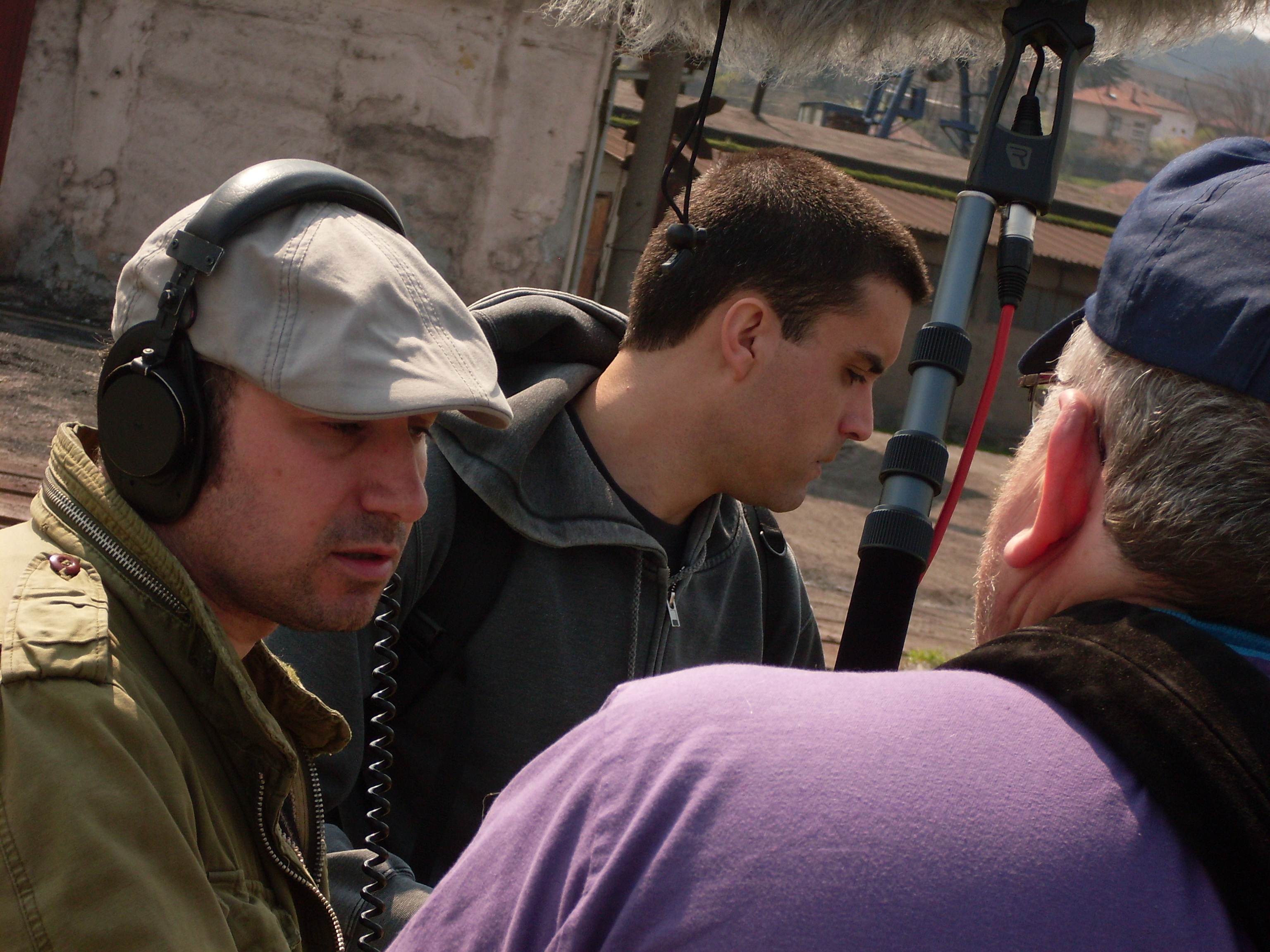 Stefan Valdobrev, Krum Rodriguez and Yuri Tsolov (left to right) during the filming of the documentary film My Mate Manchester United.